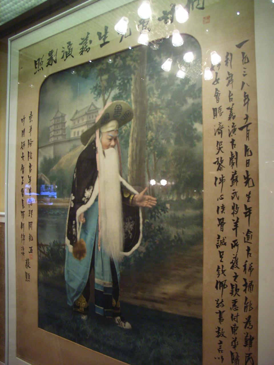 何甘棠 畫像, Dr. Sun Yat-sen Museum 孫中山紀念館展品, Kom Tong Hall (甘棠第) at 7 Castle Road, Central, HK.